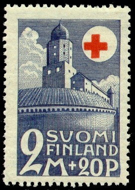 Postage stamp depicting the Vyborg Castle in the city of Vyborg